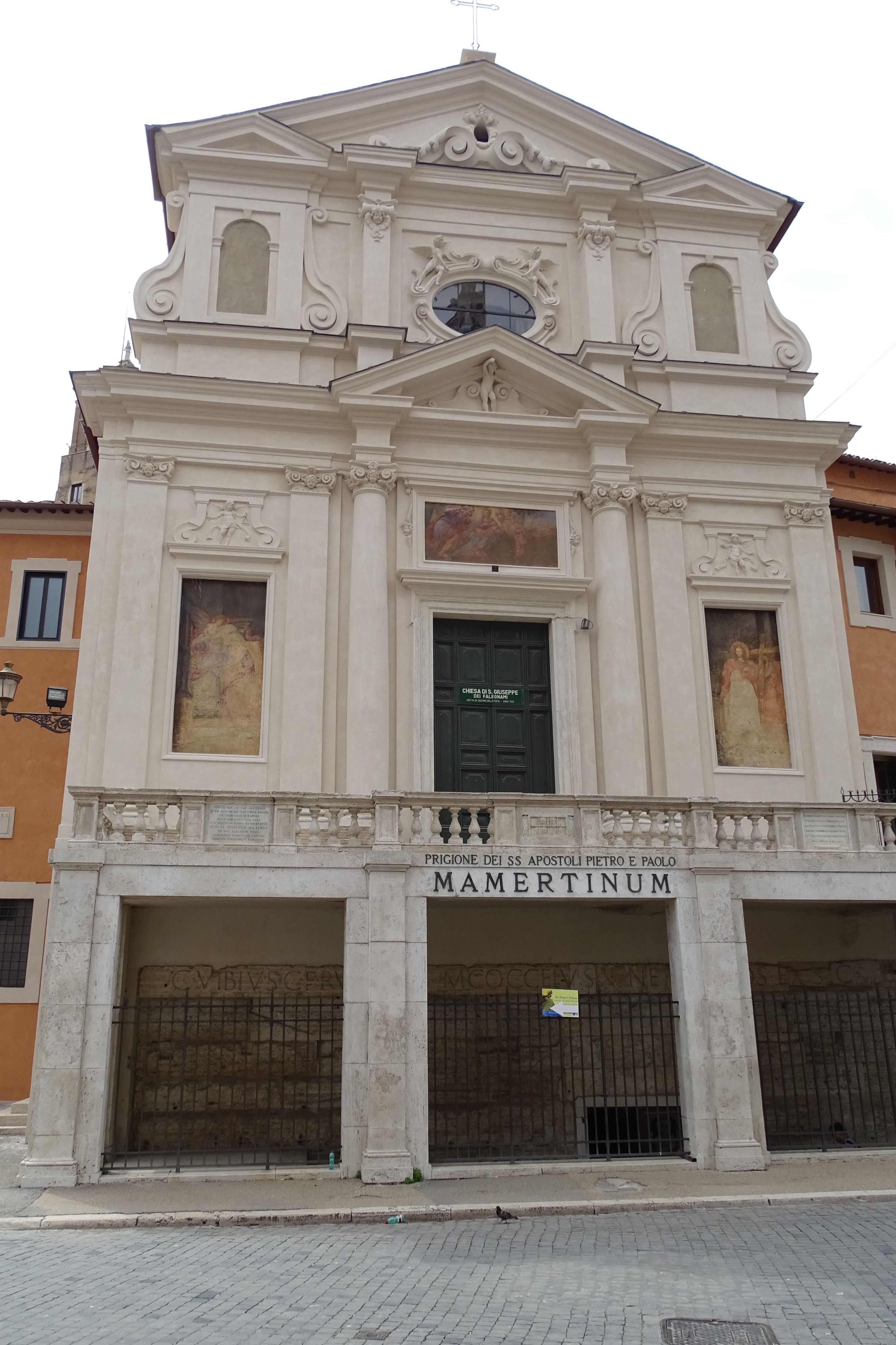 Prison of the Holy Apostles Peter and Paul (Carcere Mamertino)